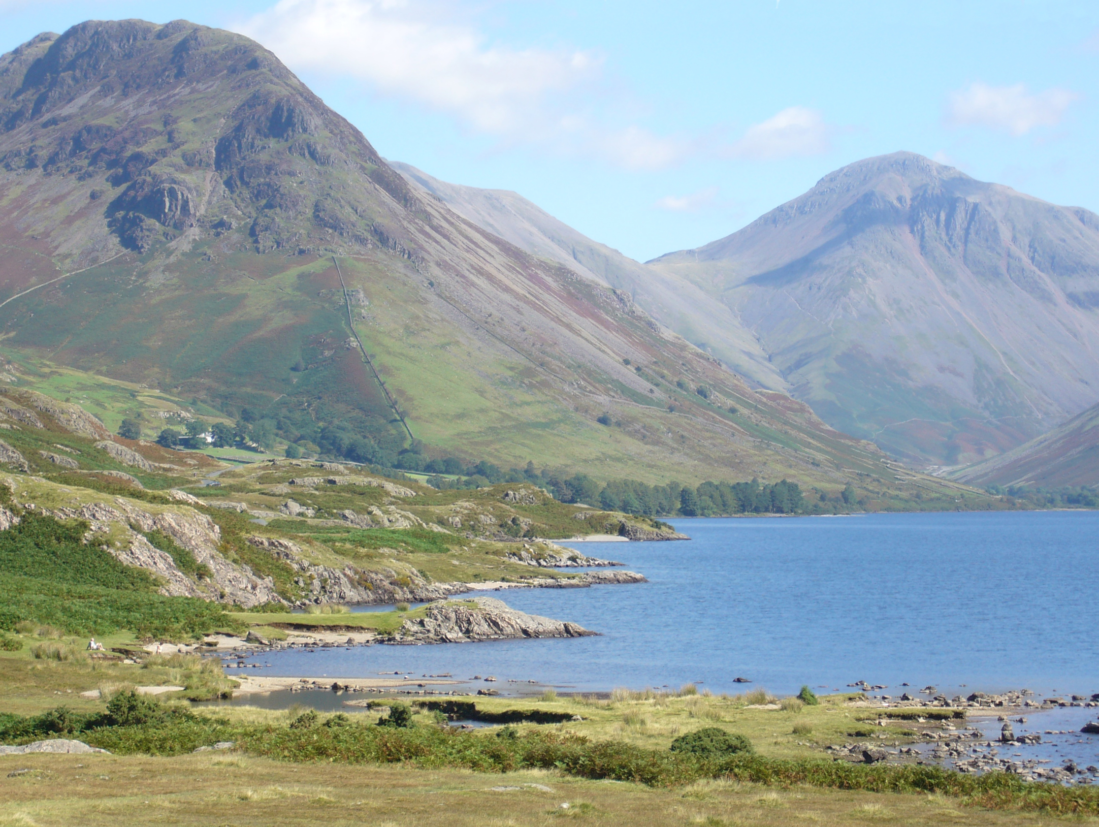 Looking out across Wast Water with Yewbarrow (left) and Great Gable, Wasdale, Lake District National Park, UK